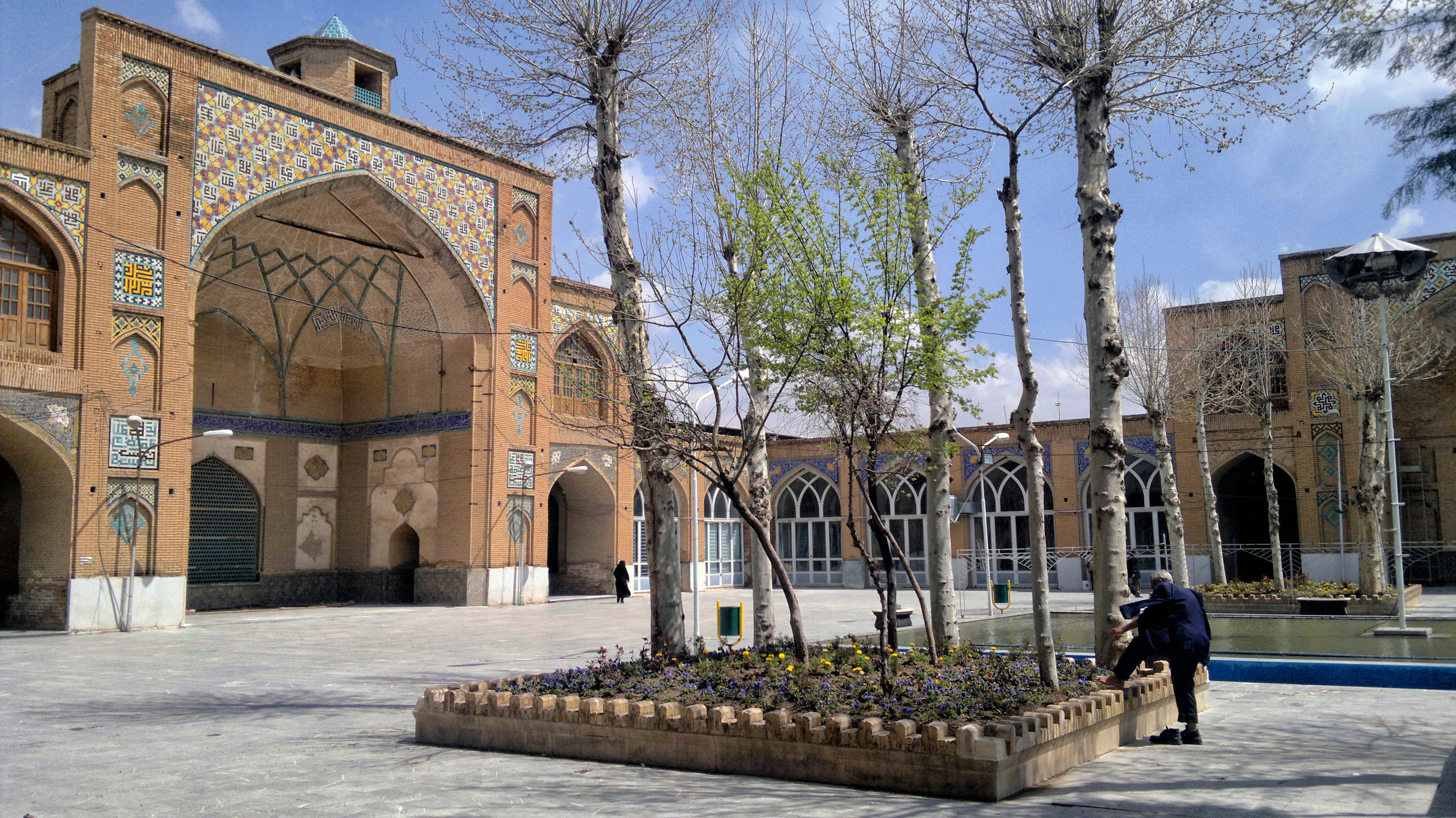 A view from the main yard and northern arc of Sultani (Emam Khomeini) mosque of Borujerd in Iran